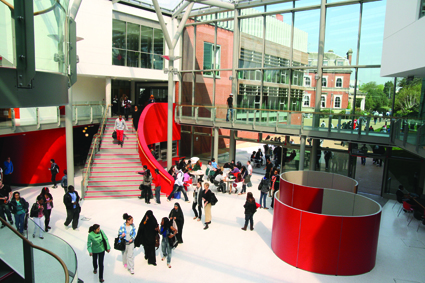 Interior of the Atrium Building (2010), West Thames College, Isleworth, London